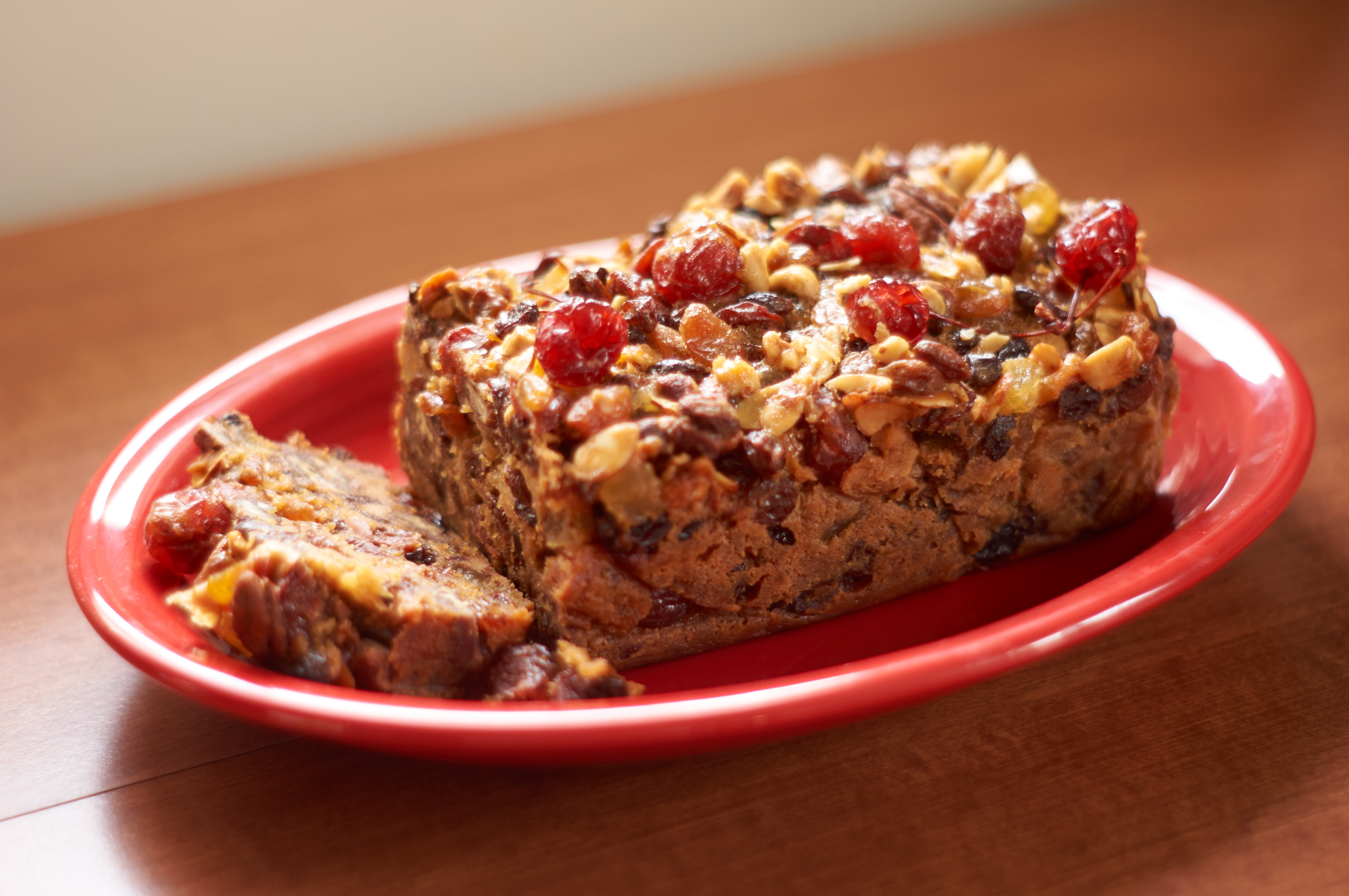 Fruit Cake from a recipe dating to at least 1940, possibly earlier. The person who wrote the recipe had roots dating back to Colonial America, though it is unclear where exactly the recipe itself originates.